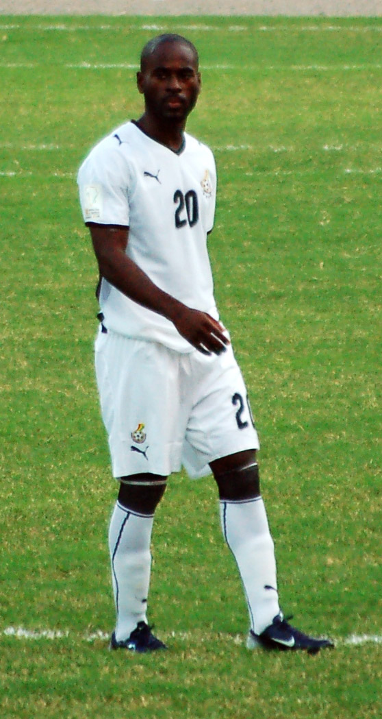 Quincy warming up - Ghana v Nigeria, African Cup of Nations 2008